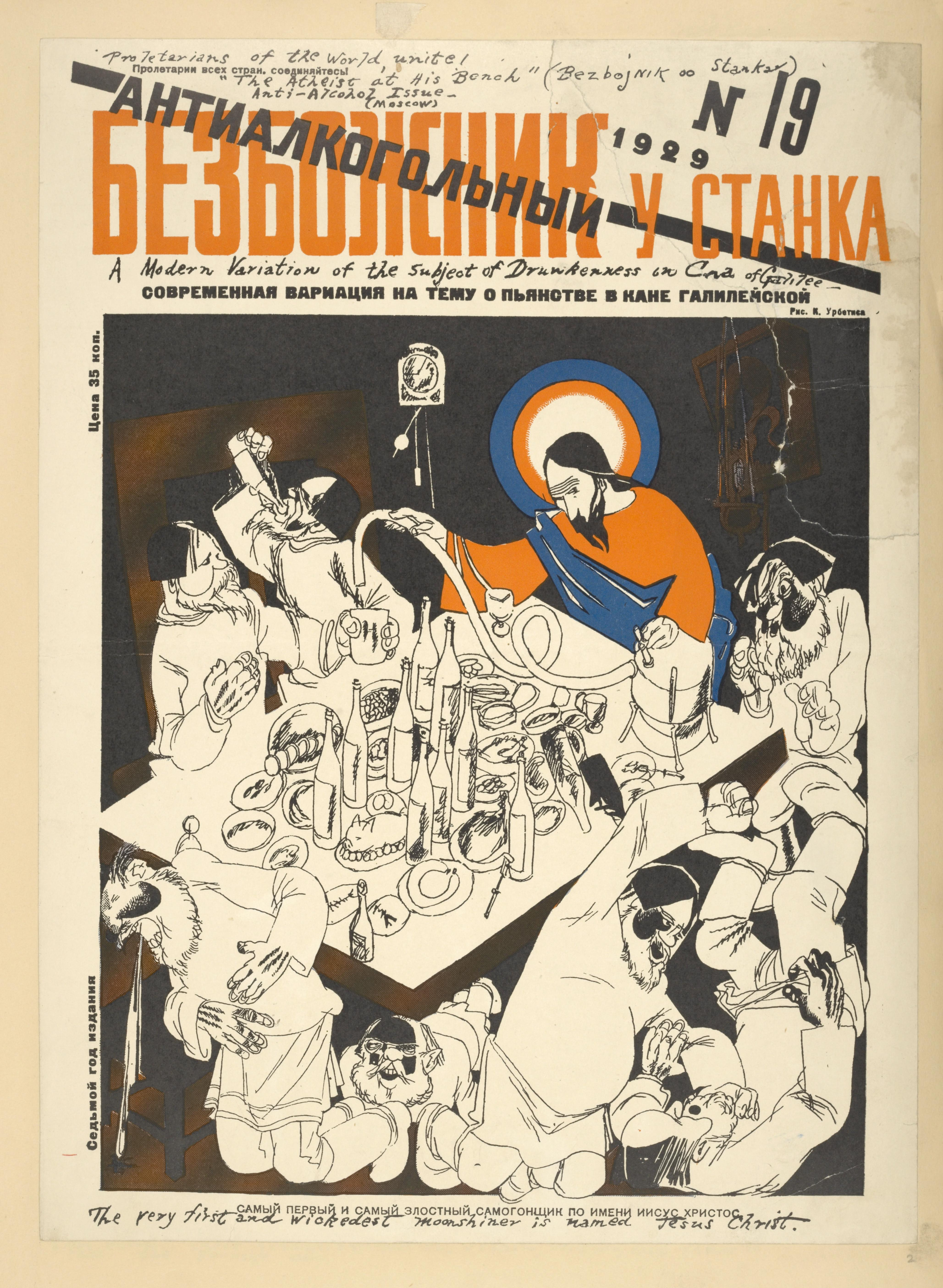 Bezbozhnik, 1920s Soviet magazine